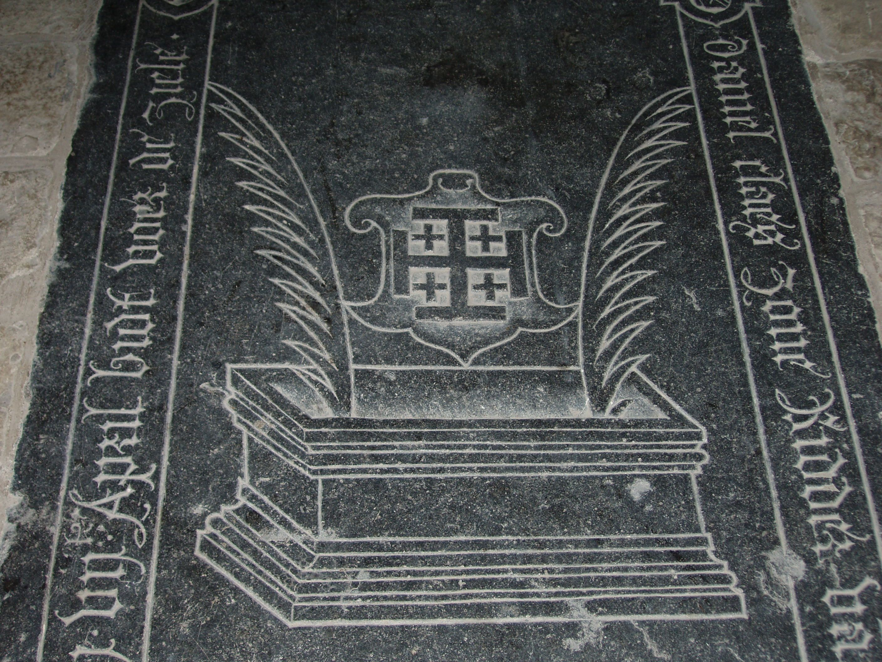 tombstone in the church of Dreischor in Zeeland (Netherlands) The deceased has been to Jerusalem, hence the empty tomb, the Jerusalem Cross and the palms.